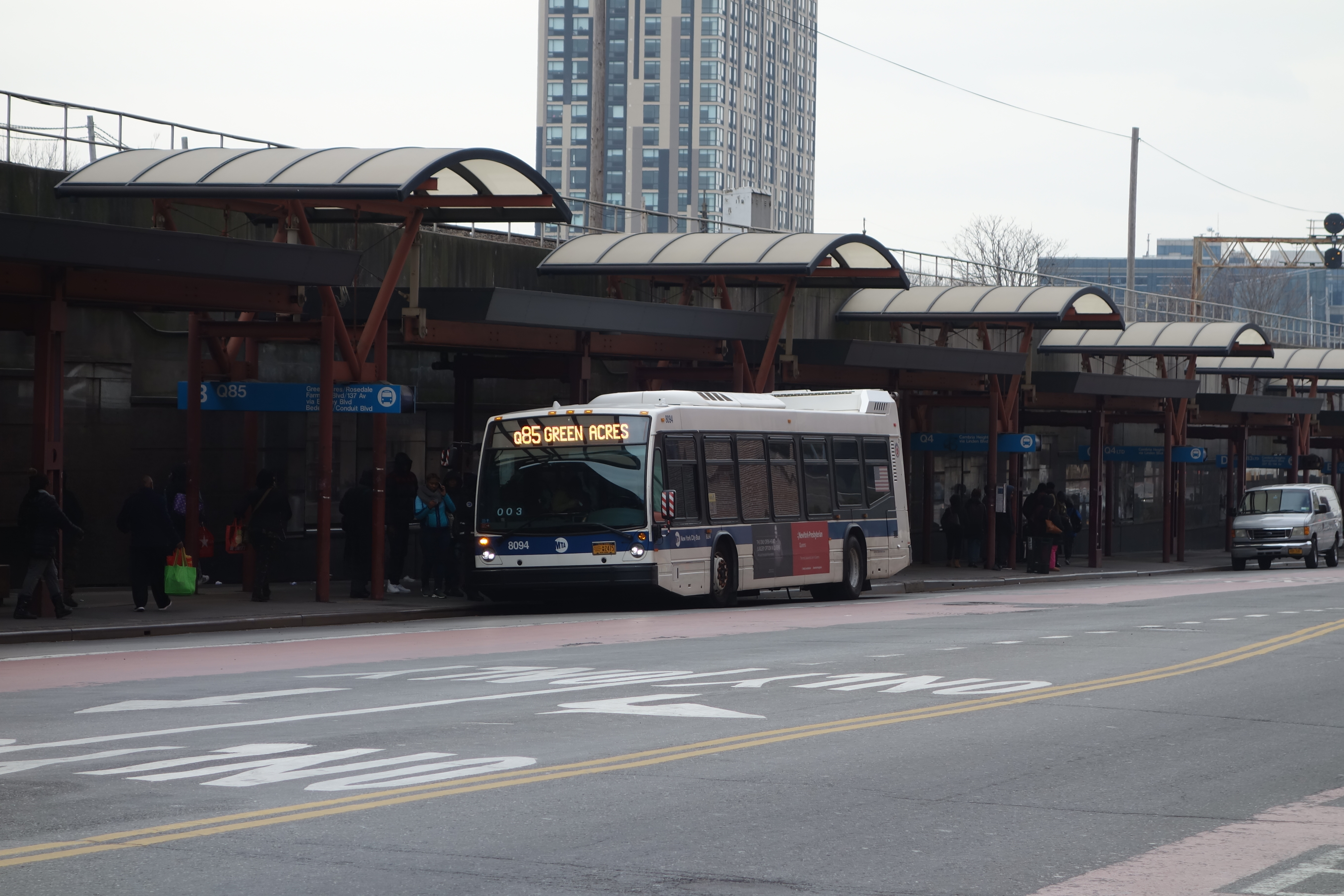 A Green Acres-bound Q85 bus picking up passengers at Bay B of the Jamaica Center Bus Terminal on Archer Avenue in Jamaica Center, Queens.